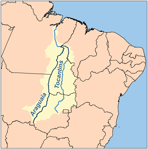 This is a map of the Tocantins Watershed. I, Karl Musser, created it based on USGS data.